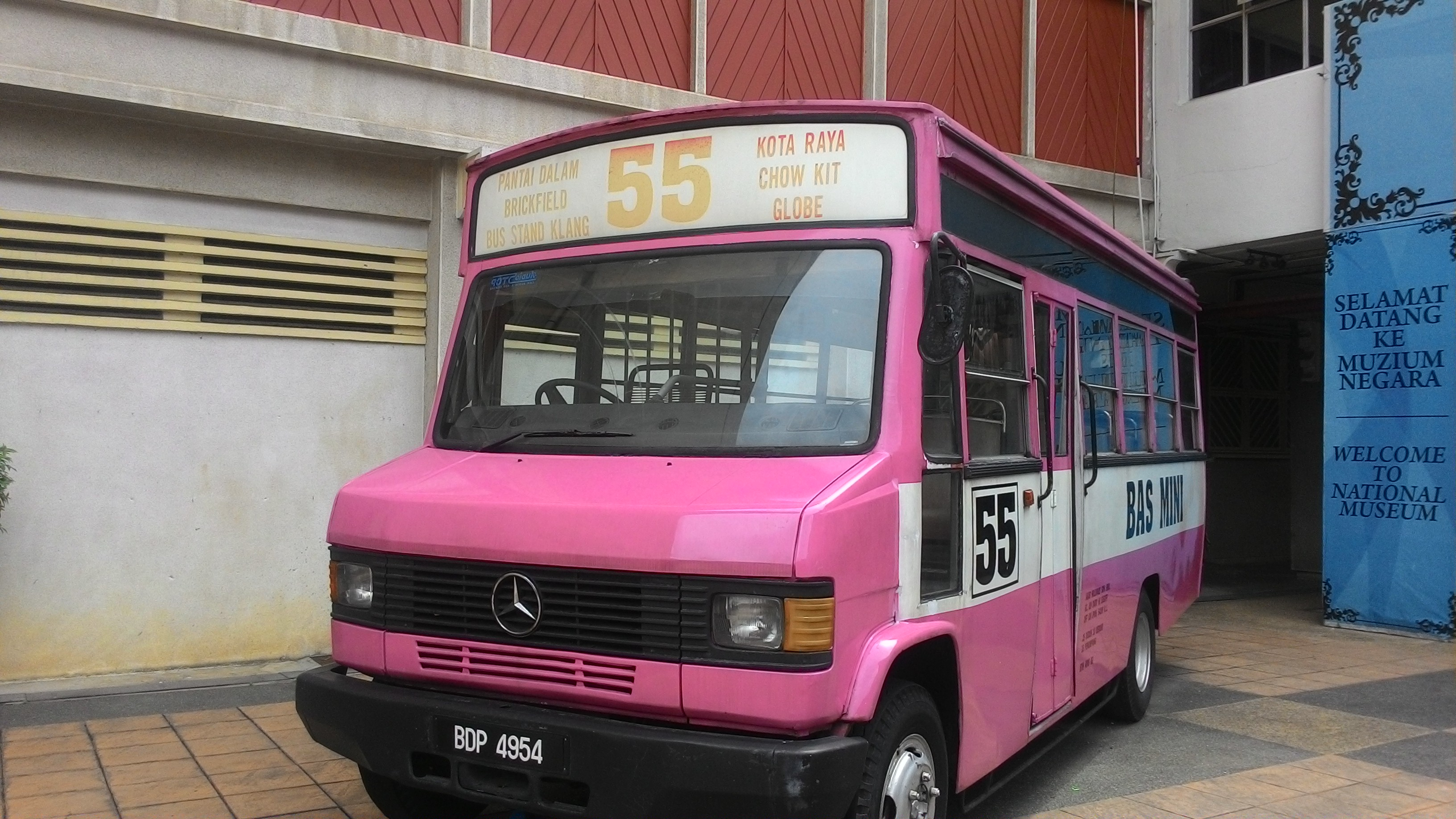 Discontinuous Kuala Lumpur Pink Bus